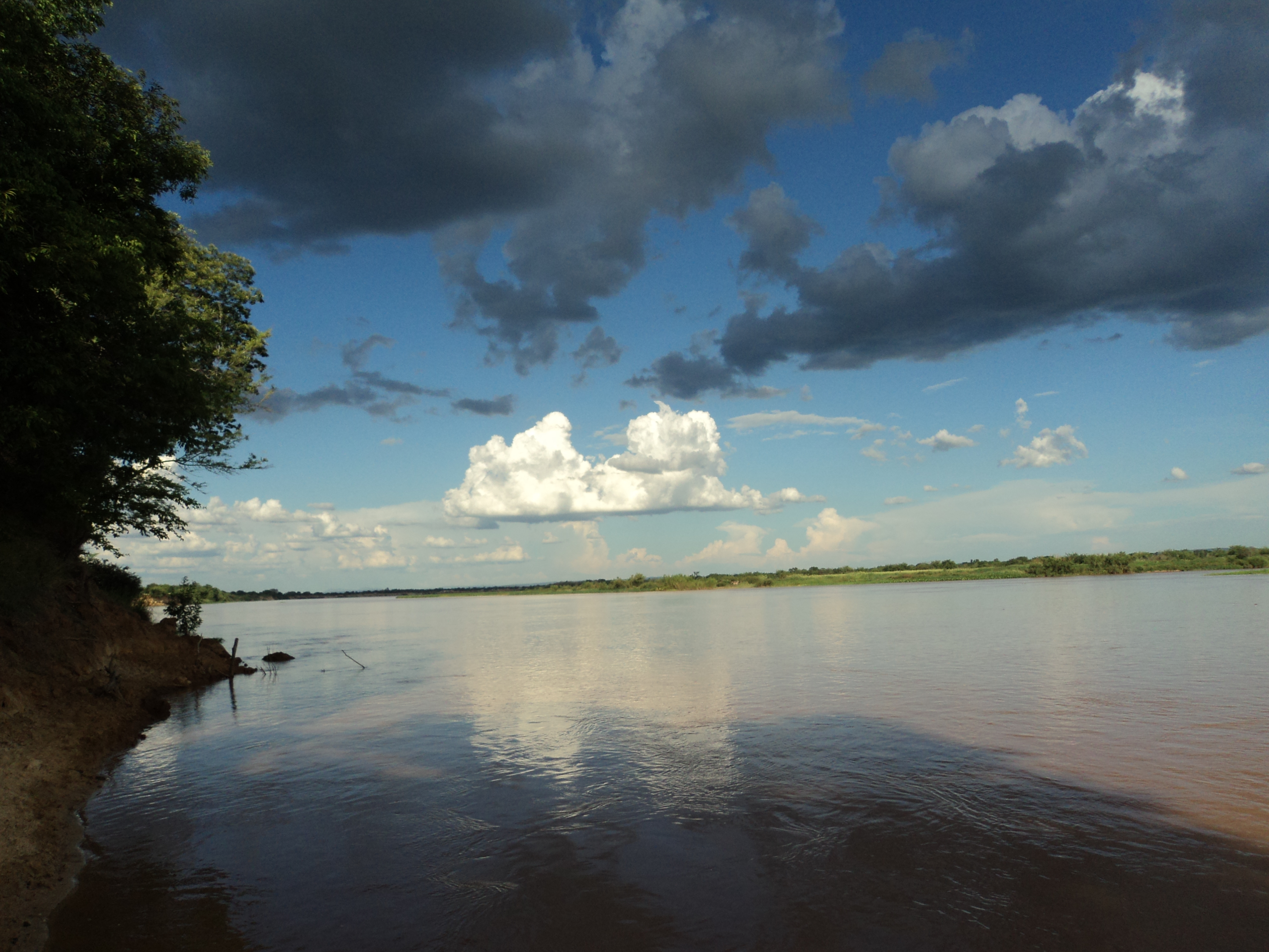 São Francisco River, in Sítio do Mato, BA, Brazil